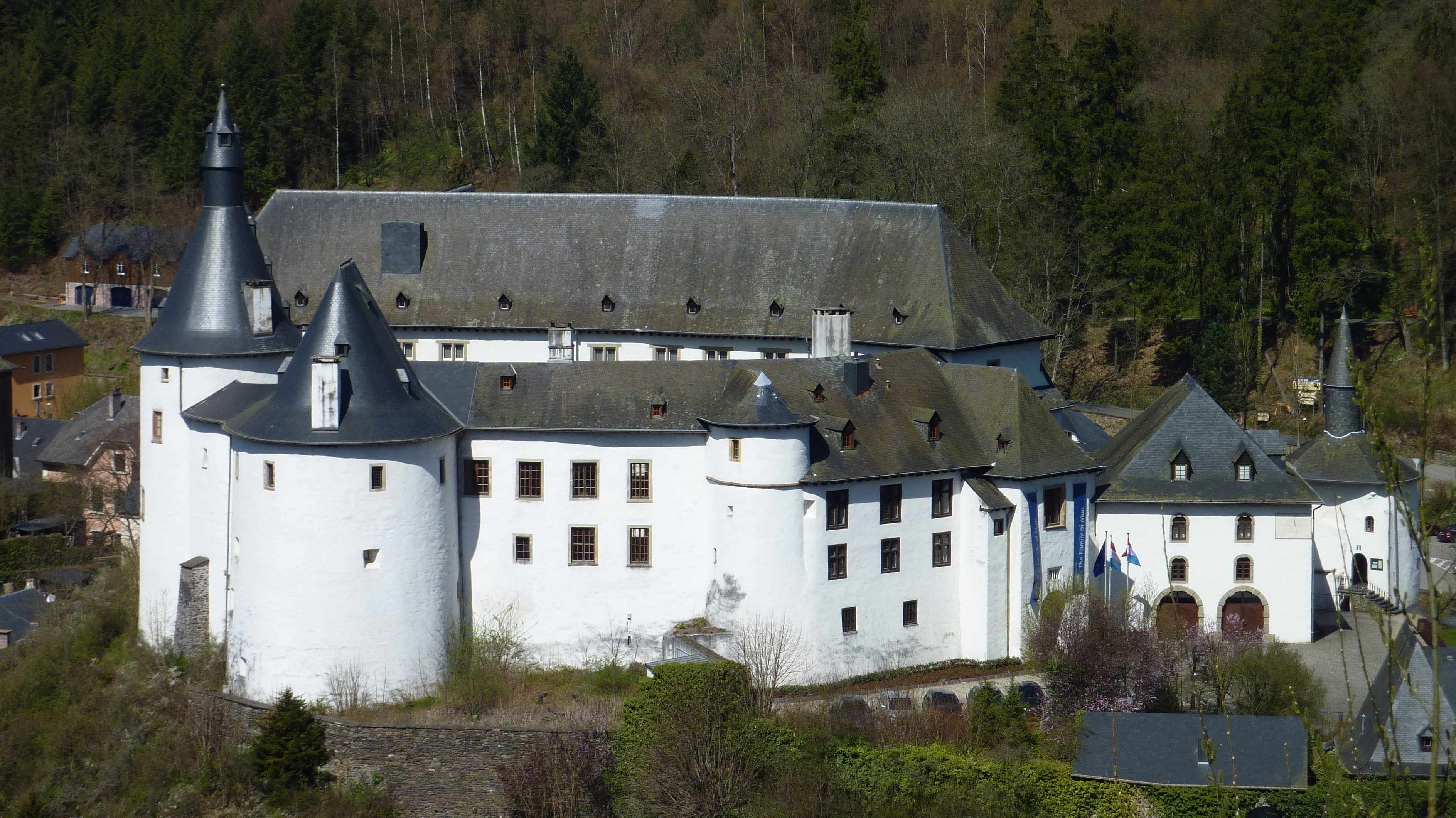 Clervaux Castle